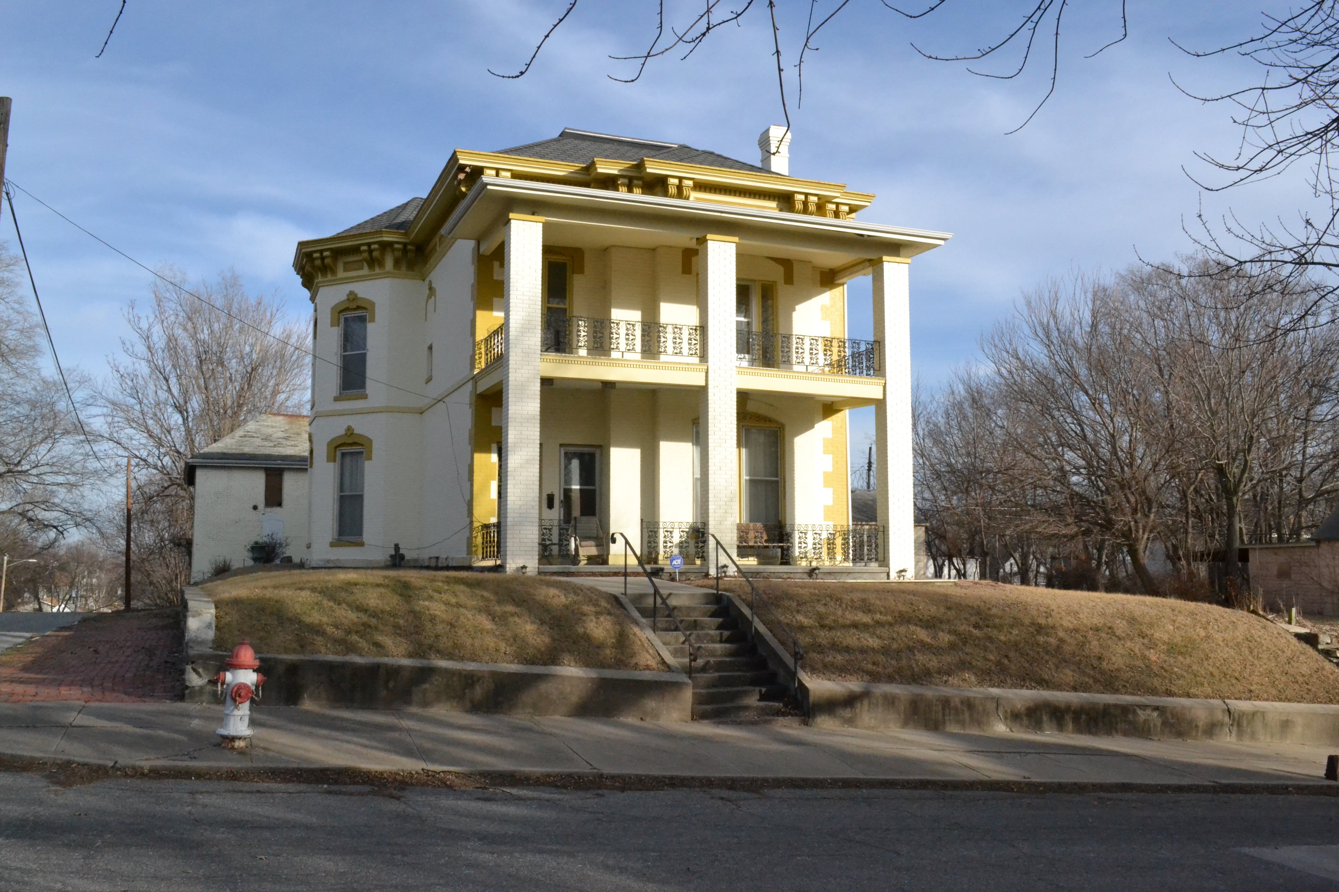 The Wooten House in St. Joseph, Missouri. Part of the Harris Addition Historic District.